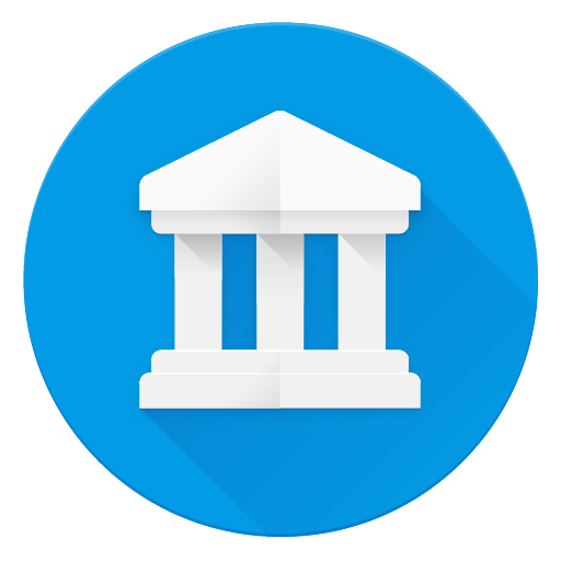 Logo of Google Arts and Culture